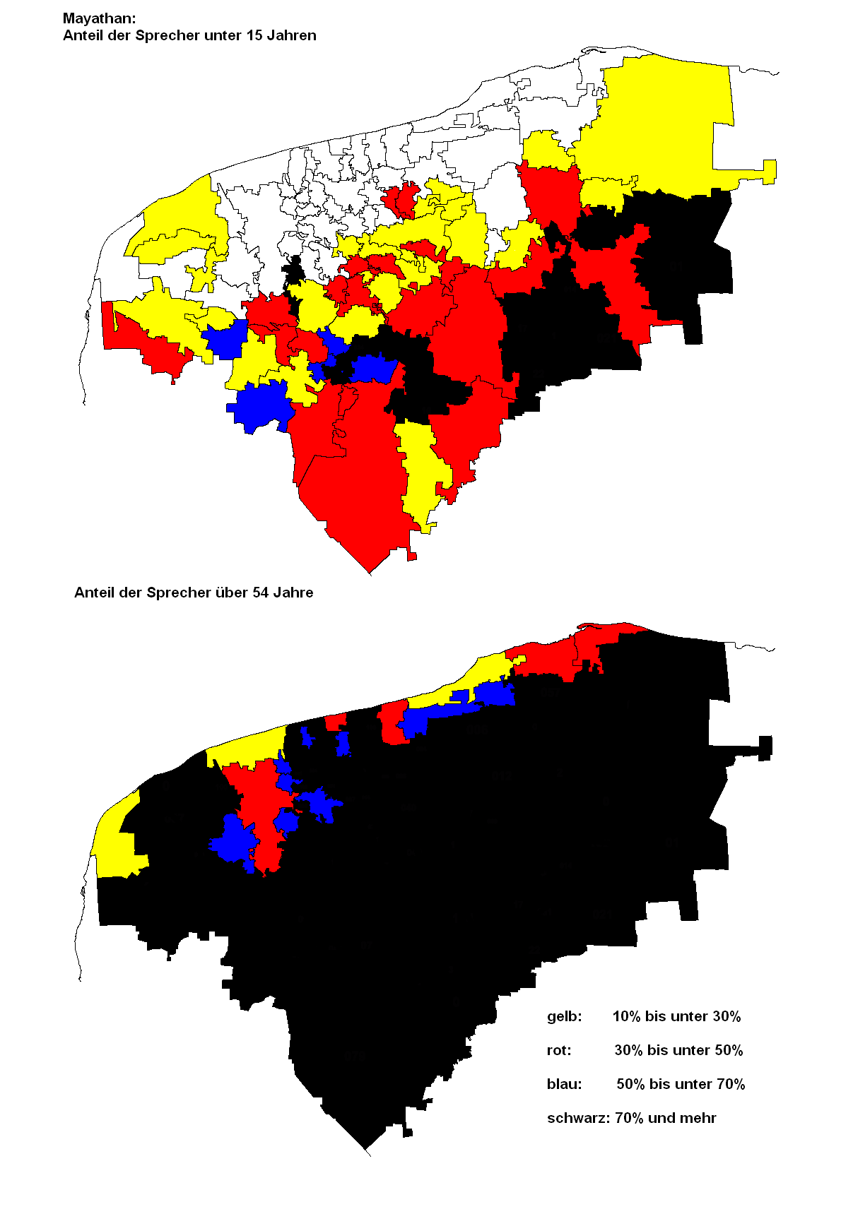 Percentage of speakers by municipio. Comparison between youngest and oldest speakers.